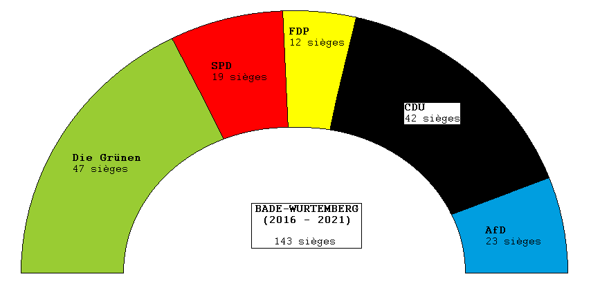 Elus du Bade-Wurtemberg en 2016